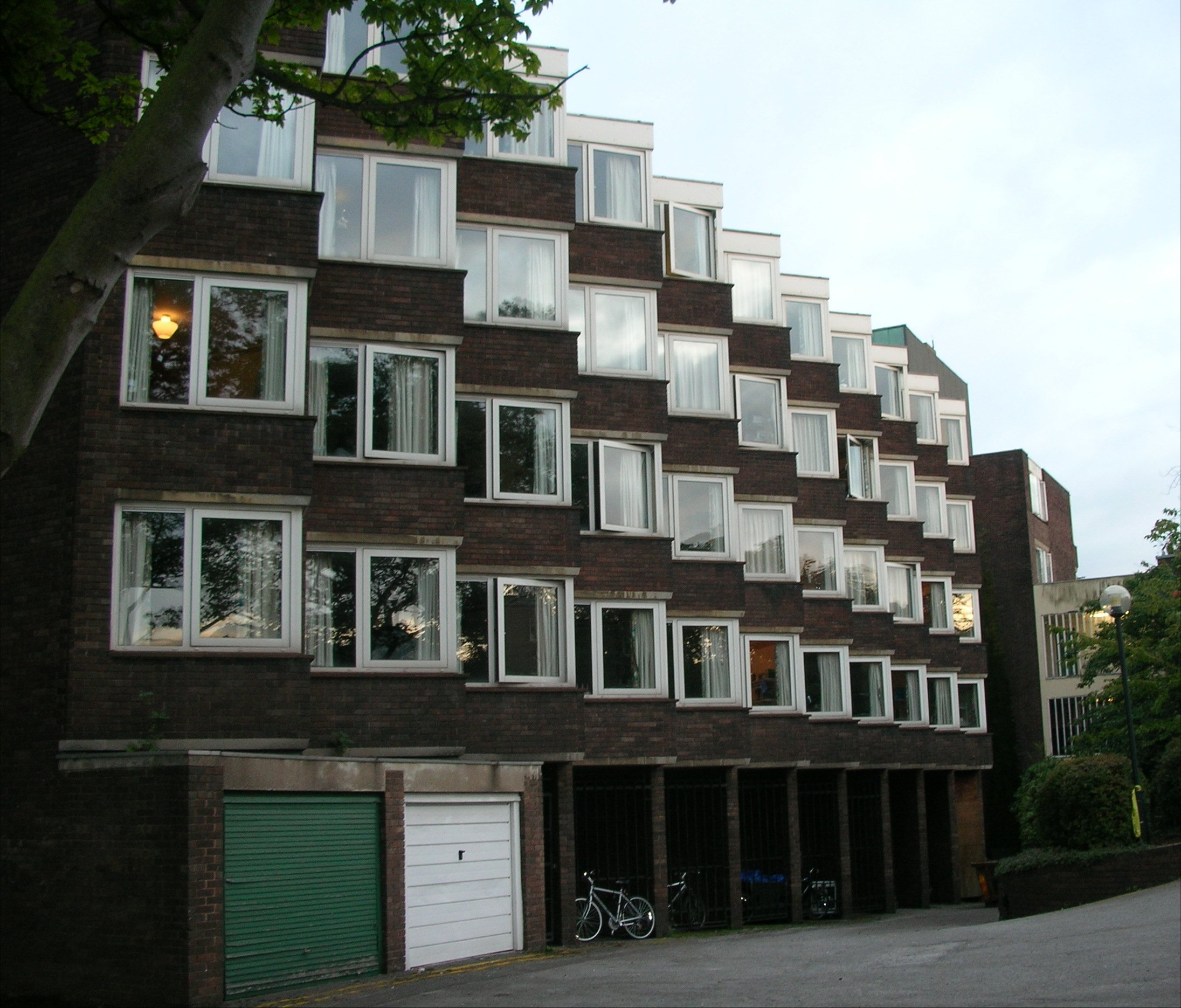 Tapton Hall of Residence of the University of Sheffield, England. Photographed by me 17 September 2006. Oosoom